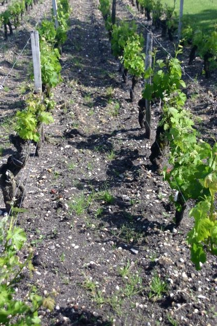 Vineyards at Chateau Haut-Bailly